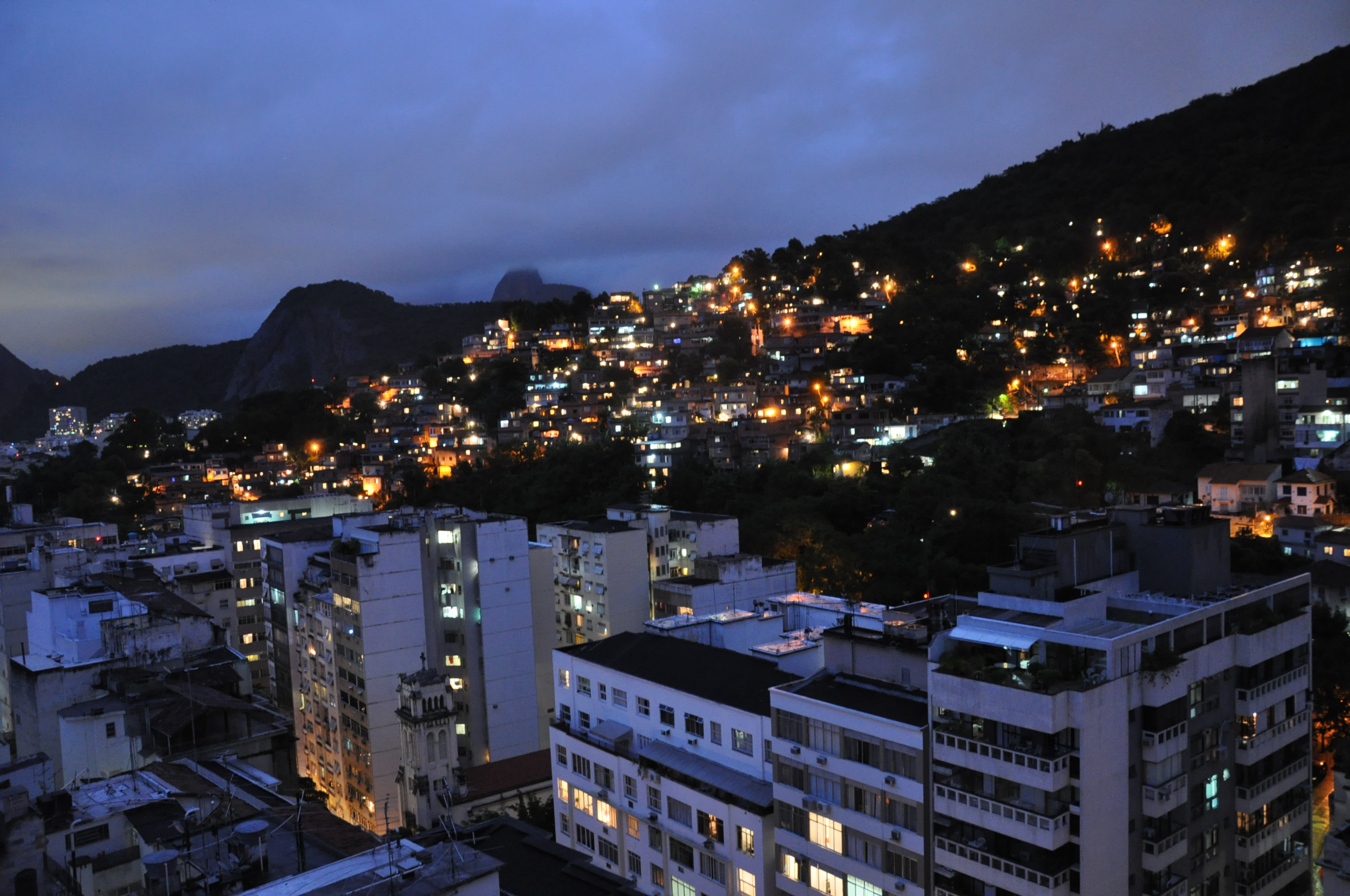 Morro da Babilonia (left in the hills behind with lights) and Chapéu Mangueira (in the right), in the foreground: Leme.